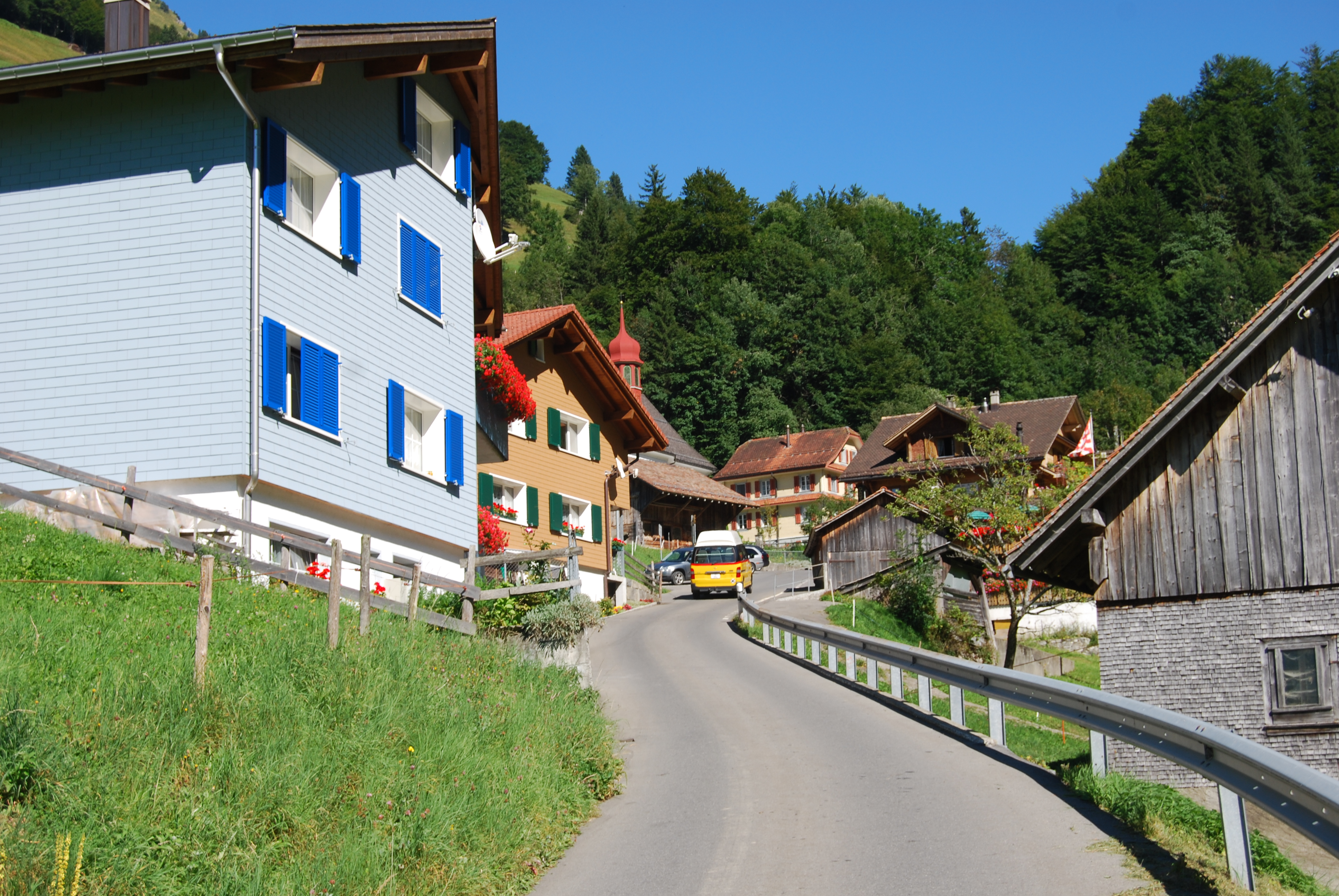 Riemenstalden, canton of Schwyz, SwitzerlandEsperanto: Riemenstalden, Kantono Ŝvico, Svislando